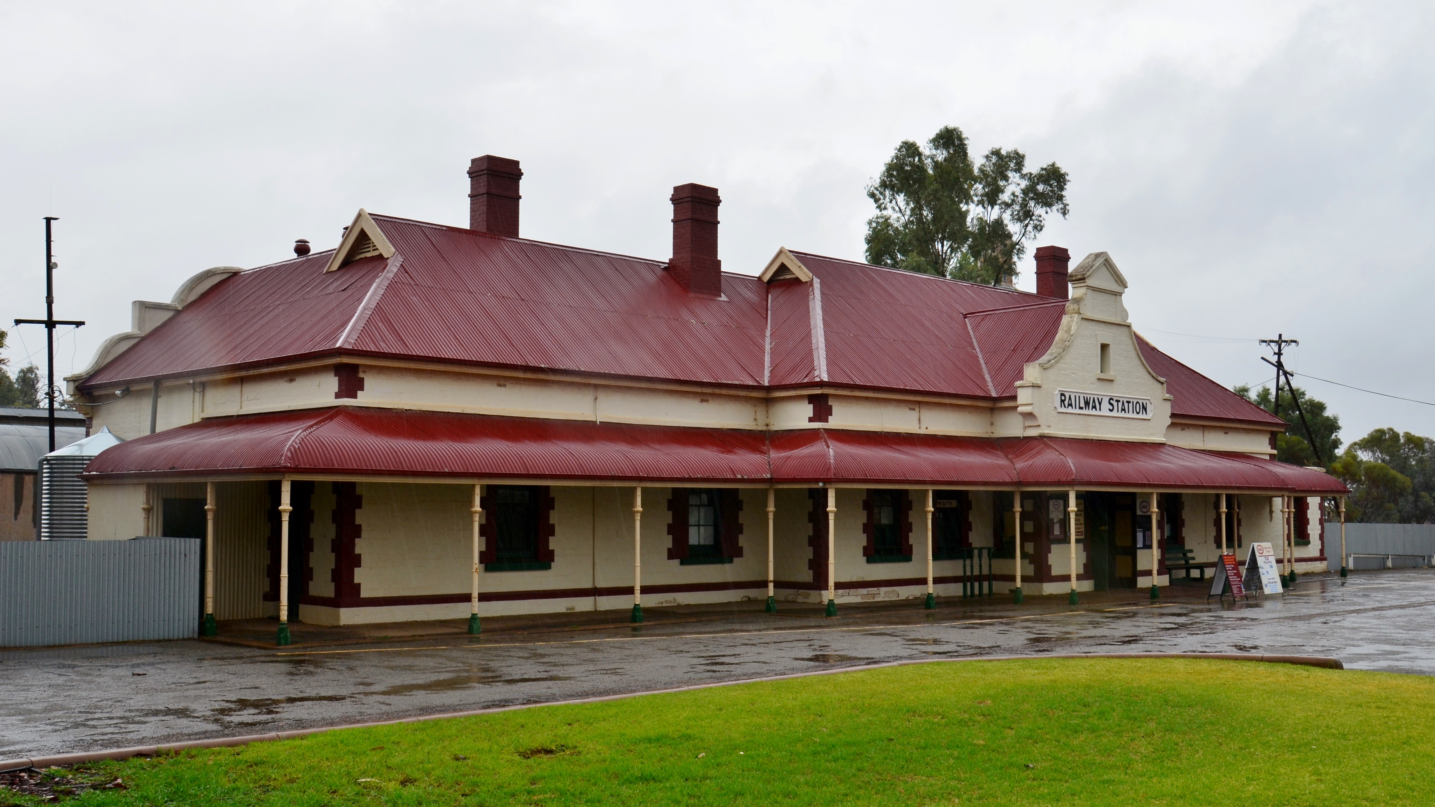 View of the station building, Quorn, South Australia